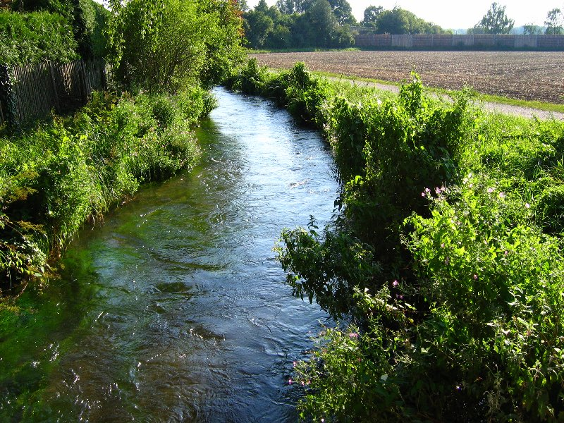 The Wuerm river in Karlsfeld